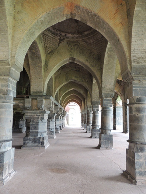 Adina Mosque